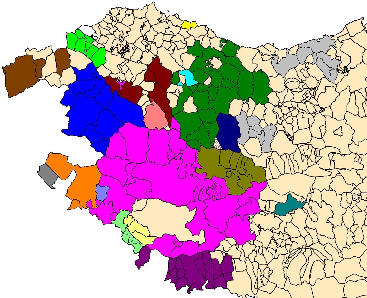 Map showing different local varieties of traditional Basque bowls in the Basque Country